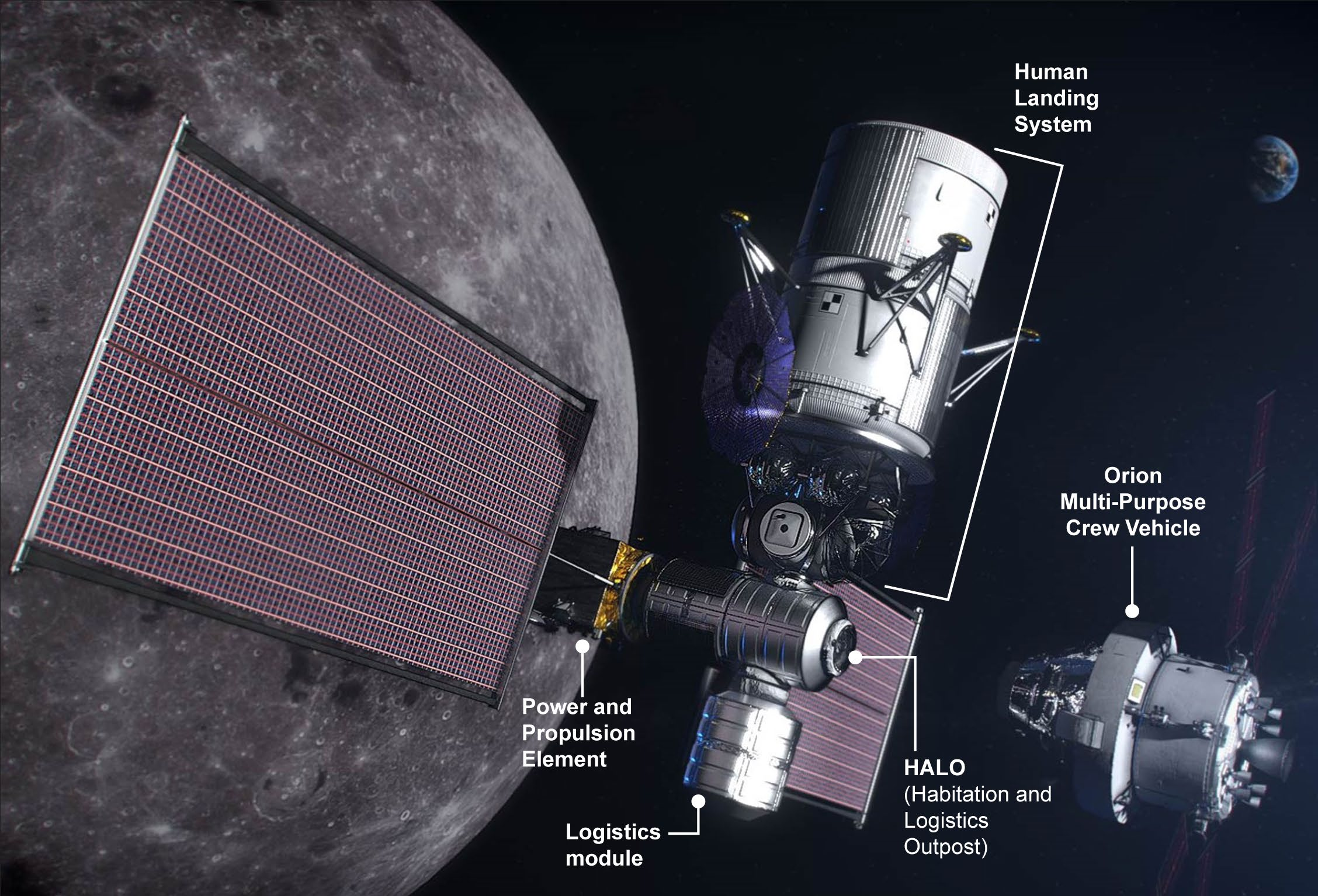 Notional Configuration of Gateway, Human Landing System, and Orion Multi-Purpose Crew Vehicle for Artemis III Mission.